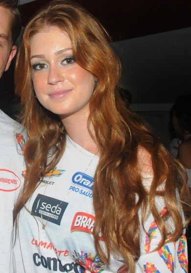 Marina Ruy Barbosa, atriz.